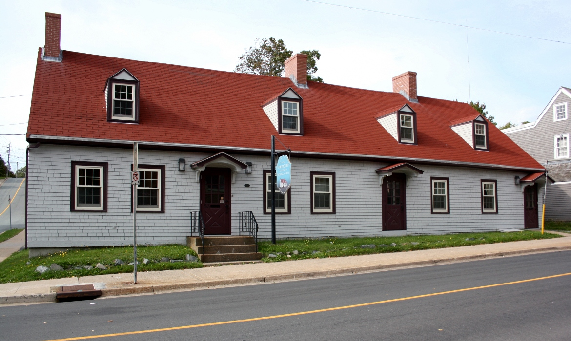 Thomas Boggs-Lawrence Hartshorne House, 53 Ochterloney Street, Dartmouth, Nova Scotia. Photographed 26 Sept. 2012 by Stephanie Clay. Blue sign reads "Dartmouth Non Profit Housing Society".